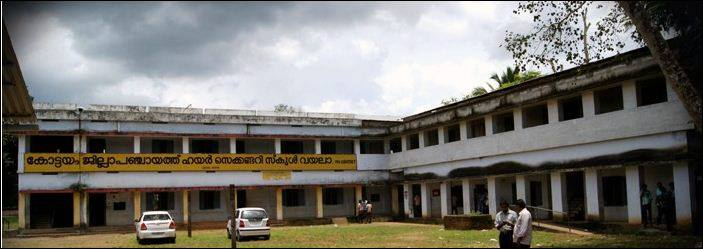 Government Vocational Higher Secondary School Vayala